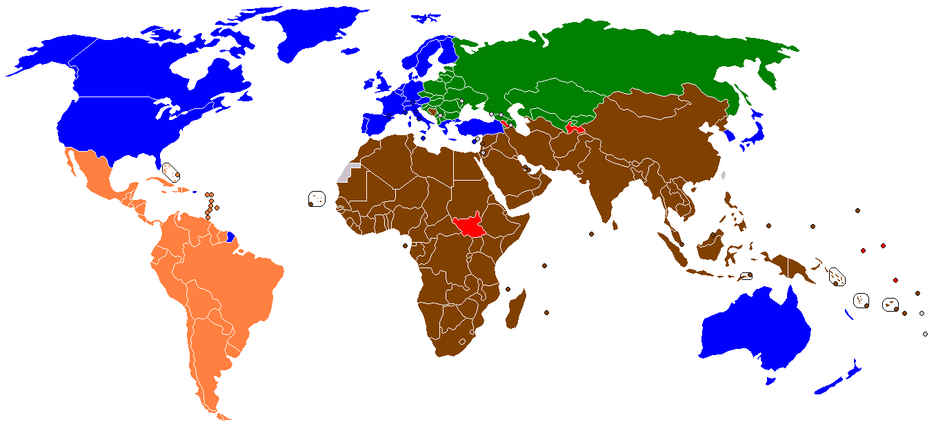 brown - List A, blue - List B, orange - List C, green - List D, red - not assigned to any list